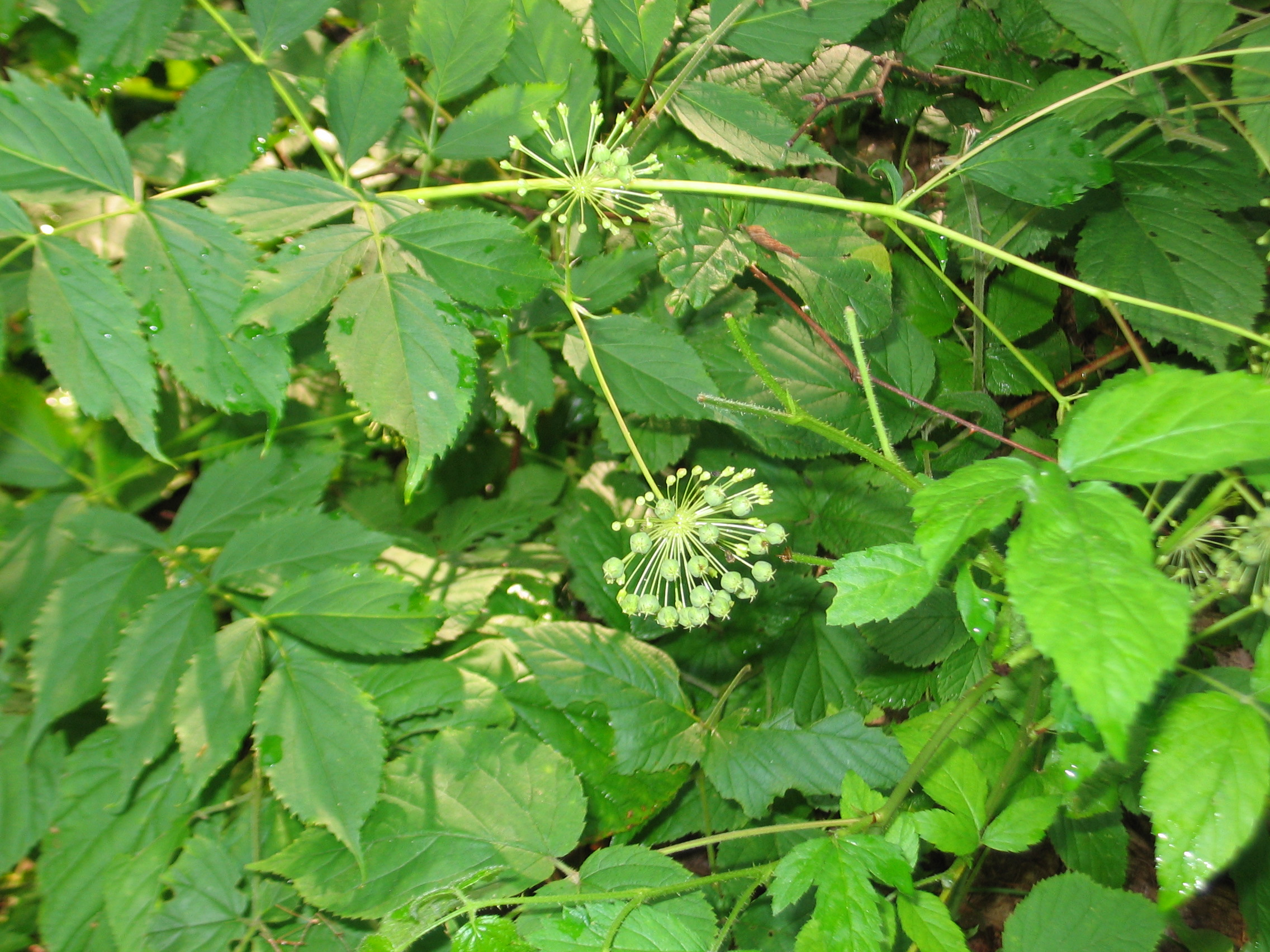 Photograph of a wild sarsaparilla Aralia hispida taken in Northfield, New Hampshire.